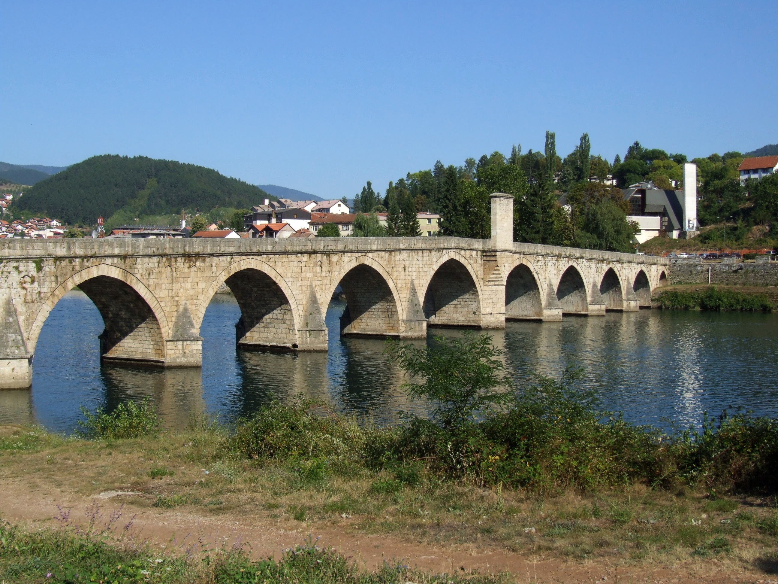 Mehmed Paša Sokolović Bridge, Višegrad, Republika Srpska